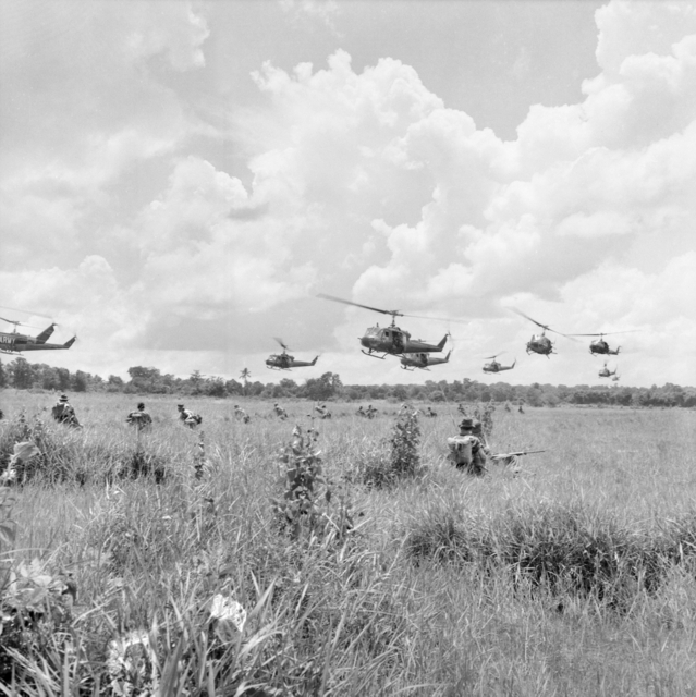 VIETNAM. 1965-07-14. TROOPS OF 1ST BATTALION, THE ROYAL AUSTRALIAN REGIMENT (1RAR), TAKE UP DEFENSIVE POSITIONS AFTER LEAVING UNITED STATES IROQUOIS HELICOPTERS THAT CARRIED THEM INTO VIET CONG INFESTED COUNTRY DURING OPERATIONS NORTH OF SAIGON. THE HELICOPTERS AIR-LIFTED THE AUSTRALIANS INTO ACTION FROM THE BIEN HOA AIR BASE.